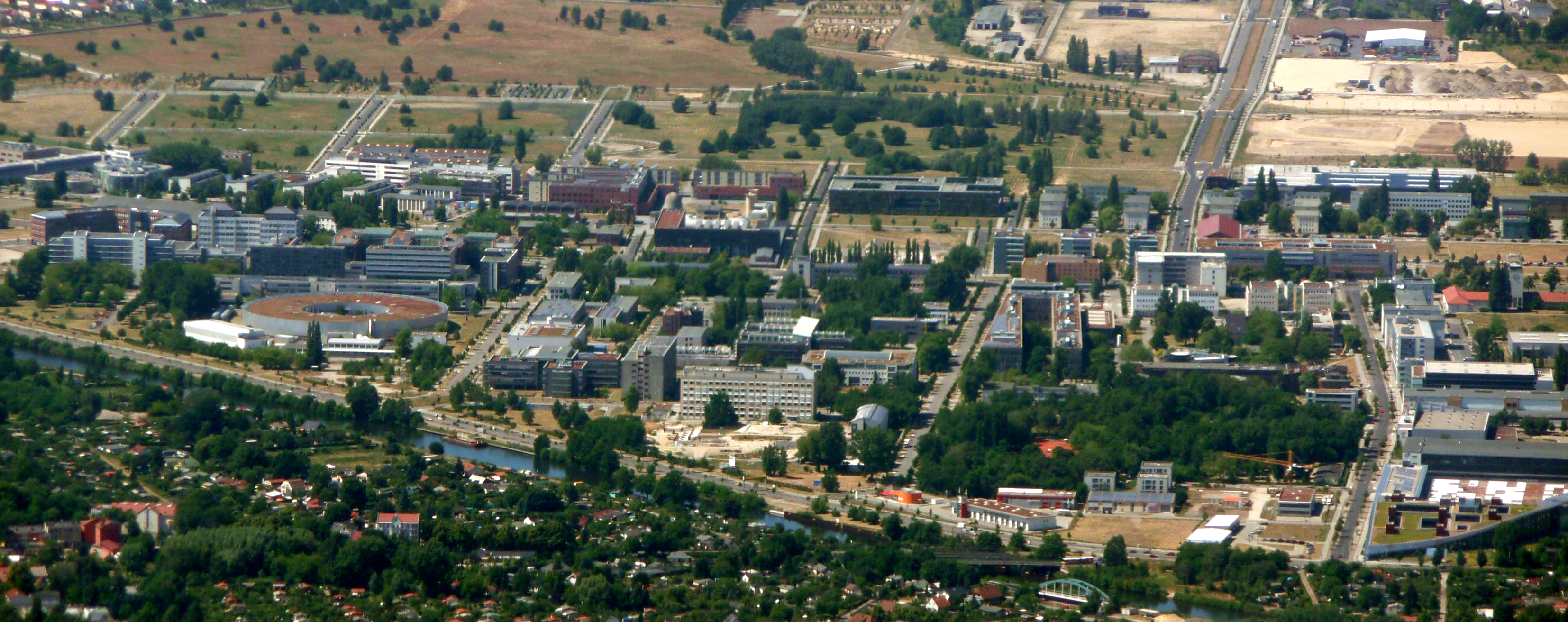 Bird's view of the WISTA Technology Park in Berlin-Adlershof (Germany)